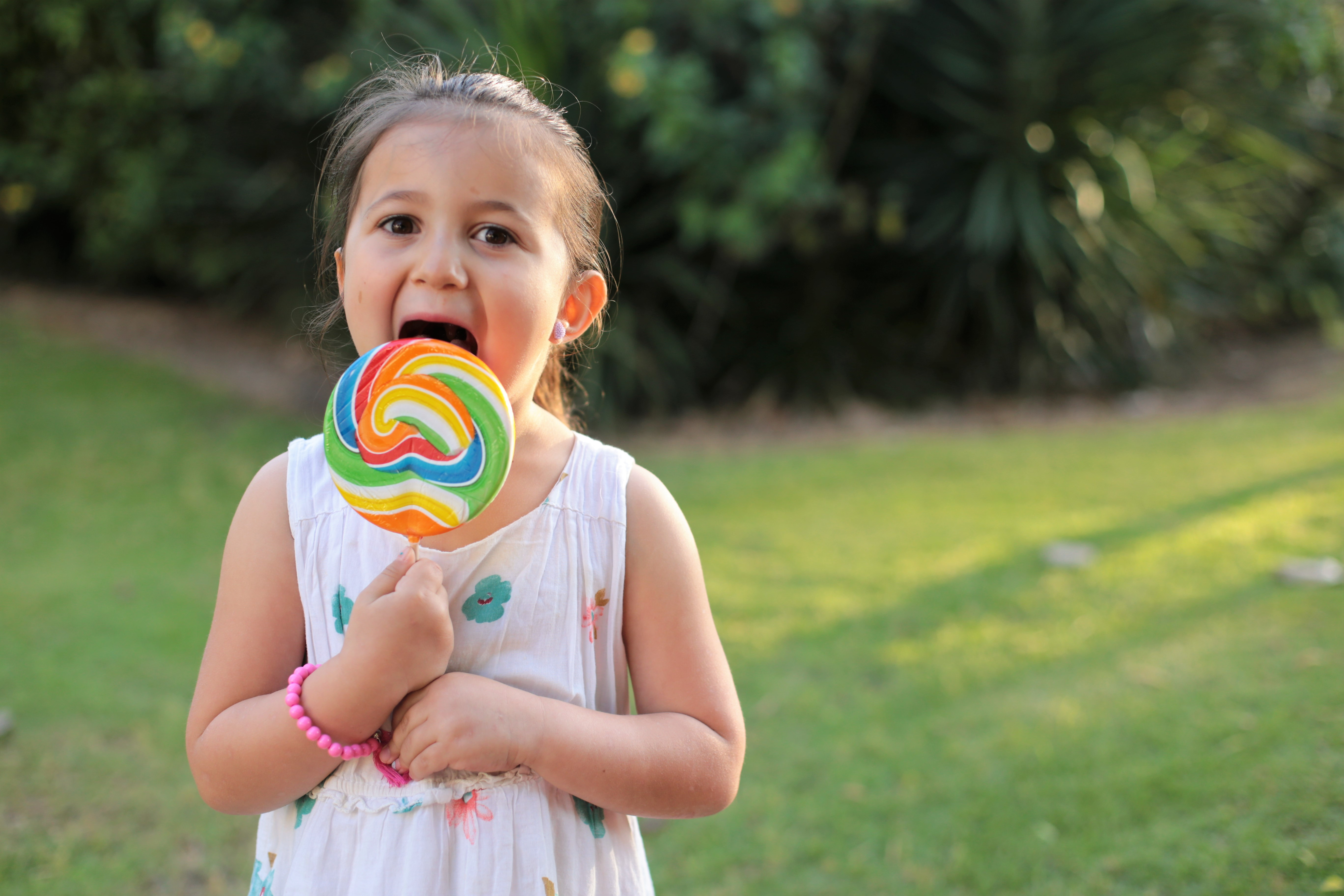 Ari Sherbill 2017